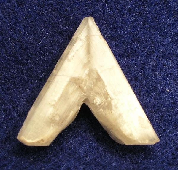 Cerussite Locality: Mammoth-Saint Anthony Mine (Mammoth-St Anthony Mine; Mammoth Mine; St. Anthony Mine), St. Anthony deposit, Tiger, Mammoth District, Pinal County, Arizona, USA (Locality at ) Size: thumbnail, 2.1 x 2 x .7 cm Cerussite A very choice single V-twin of lustrous Cerussite from Tiger, Arizona. This old piece has excellent aesthetics, and the rich pearly luster captures the eye. Most people see a good Mammoth Cerussite so rarely that they are simply unaware that there even is a US locality that produced such fine Cerussites - and FEW such twins, as this. ex Ernie Schlichter collection.